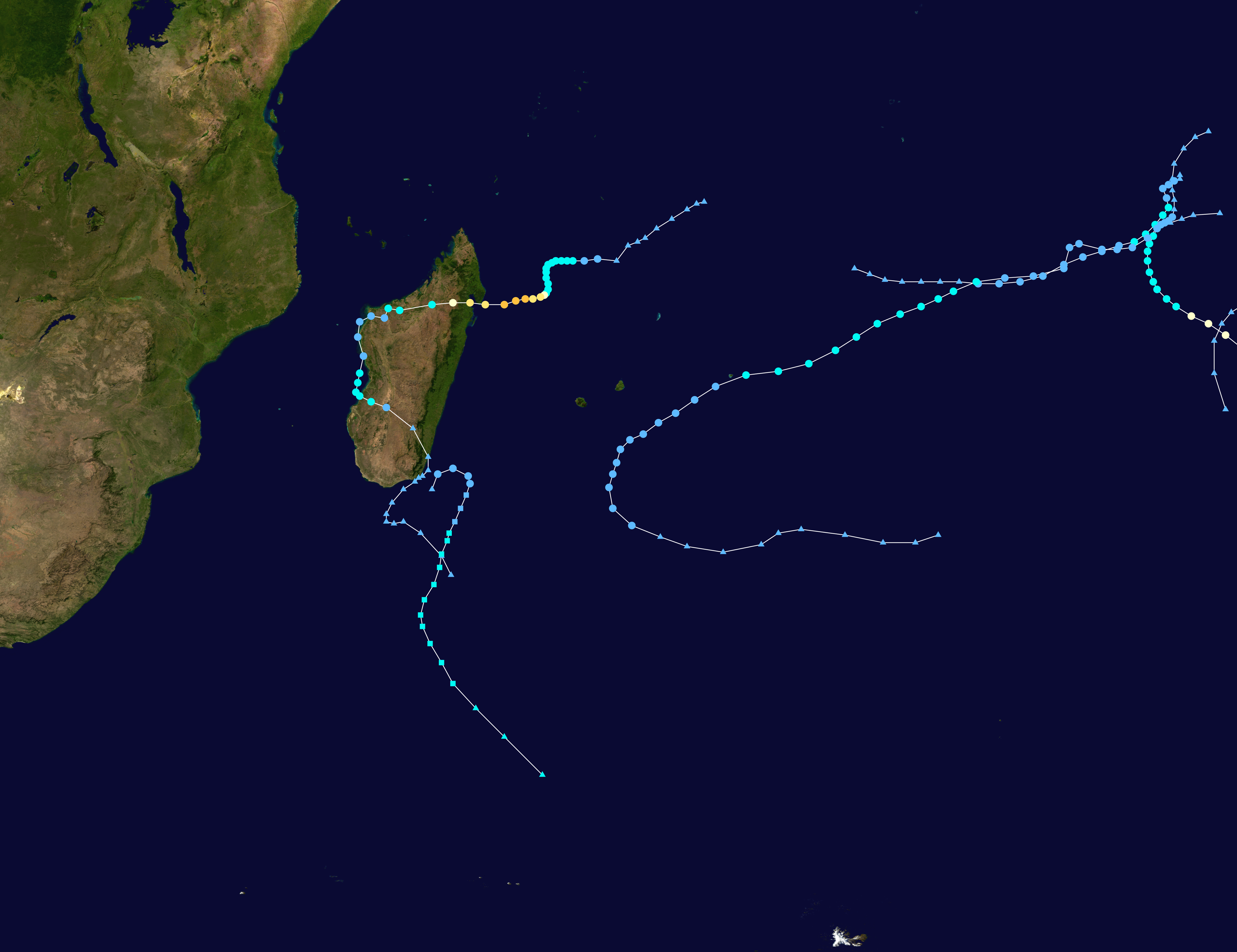 This map shows the tracks of all tropical cyclones in the 2010-11 South-West Indian Ocean cyclone season. The points show the location of each storm at 6-hour intervals. The colour represents the storm's maximum sustained wind speeds as classified in the Saffir-Simpson Hurricane Scale (see below), and the shape of the data points represent the type of the storm. Saffir–Simpson scale Tropical depression≤38 mph≤62 km/h Category 3111–129 mph178–208 km/h Tropical storm39–73 mph63–118 km/h Category 4130–156 mph209–251 km/h Category 174–95 mph119–153 km/h Category 5≥157 mph≥252 km/h Category 296–110 mph154–177 km/h Unknown Storm type Tropical cyclone Subtropical cyclone Extratropical cyclone / Remnant low / Tropical disturbance / Monsoon depression